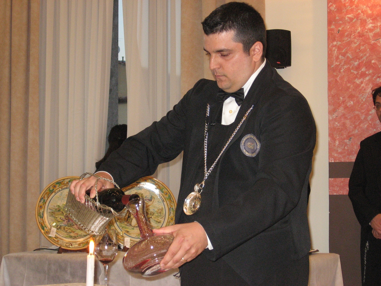 A Sommelier decanting and serving wine